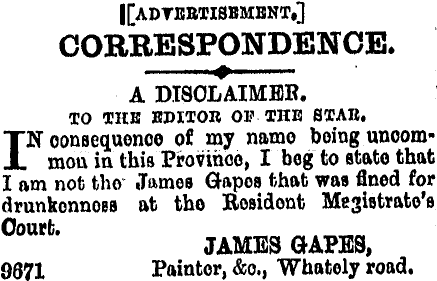 Scan of an advertisement that appeared in The Star (a Christchurch newspaper) on 7 August 1876.